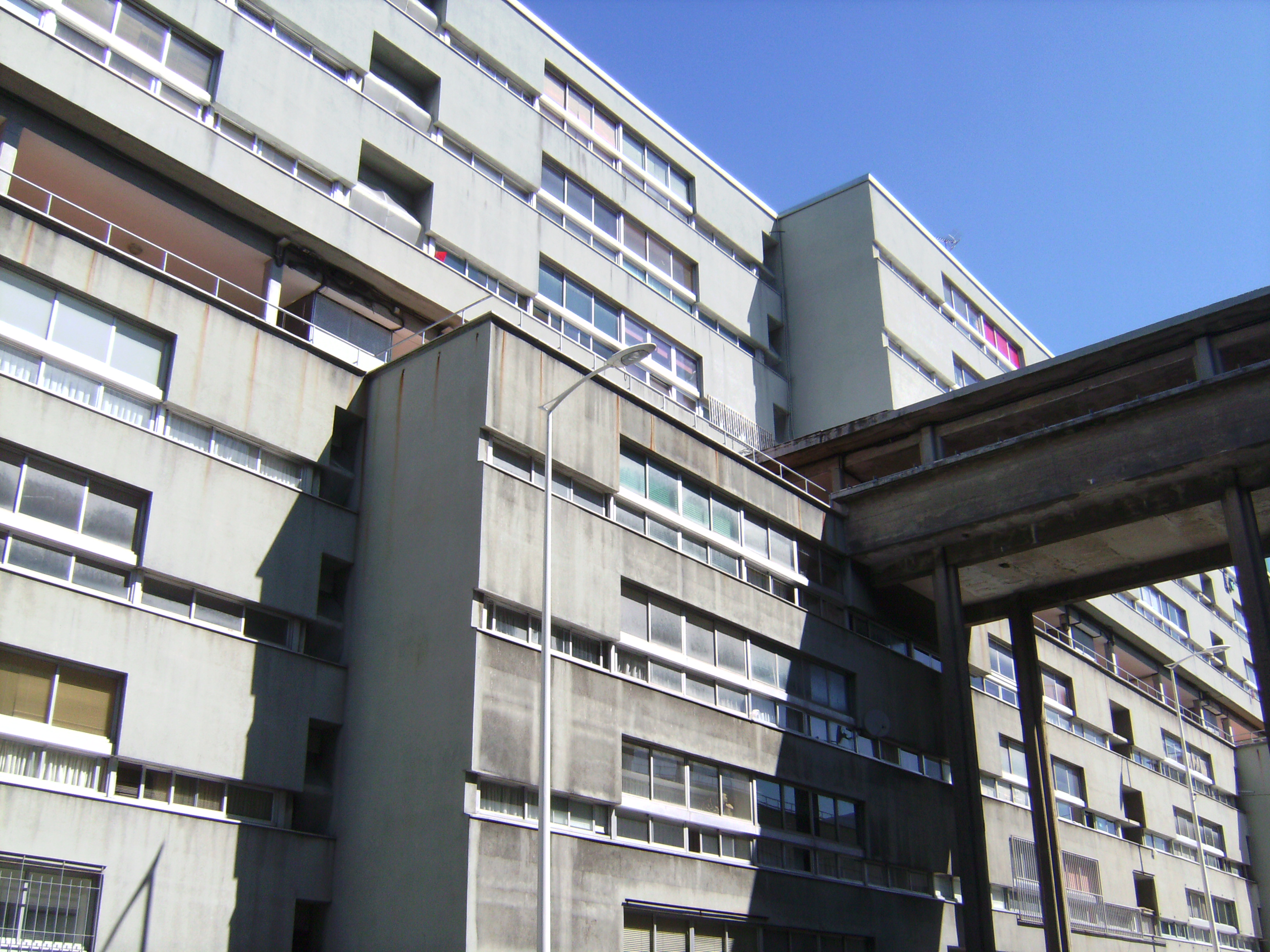 Elviña Neighborhood Unit in the city of A Coruña. Architect: Jose Antonio Corrales.